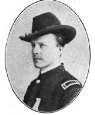 This is a crop of a photo of Captain Henry C. Potter of the 18th Pennsylvania Cavalry in the American Civil War.